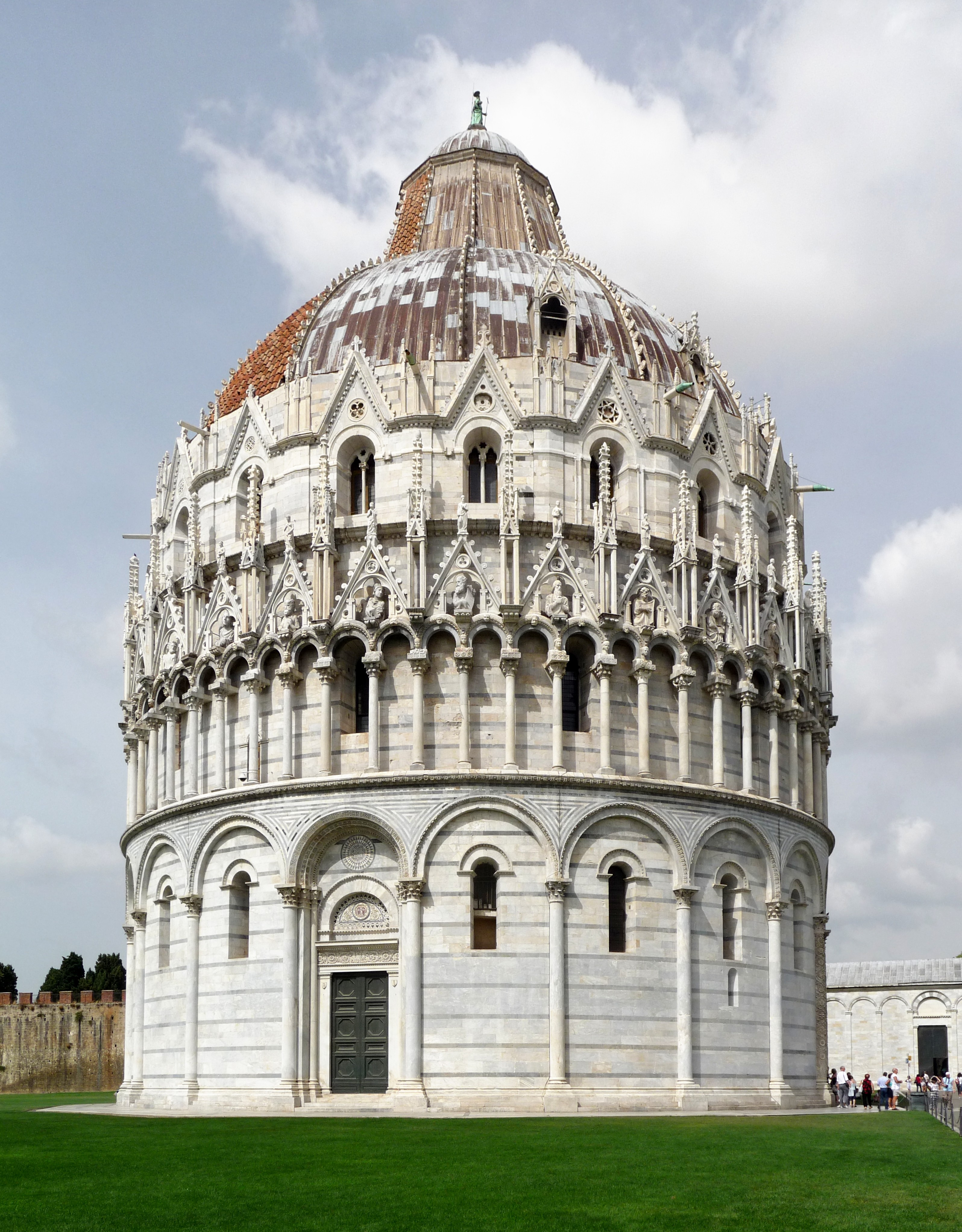 Baptistry, Pisa, Italy